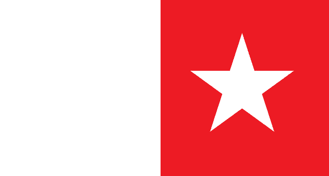 Witu Sultanate - flag of Sultan Fumobakari around 1890 according to Voeltzkow, Reise in Ostafrika, Band I, Abt. I, Reisebericht 2. Teil, p. 83